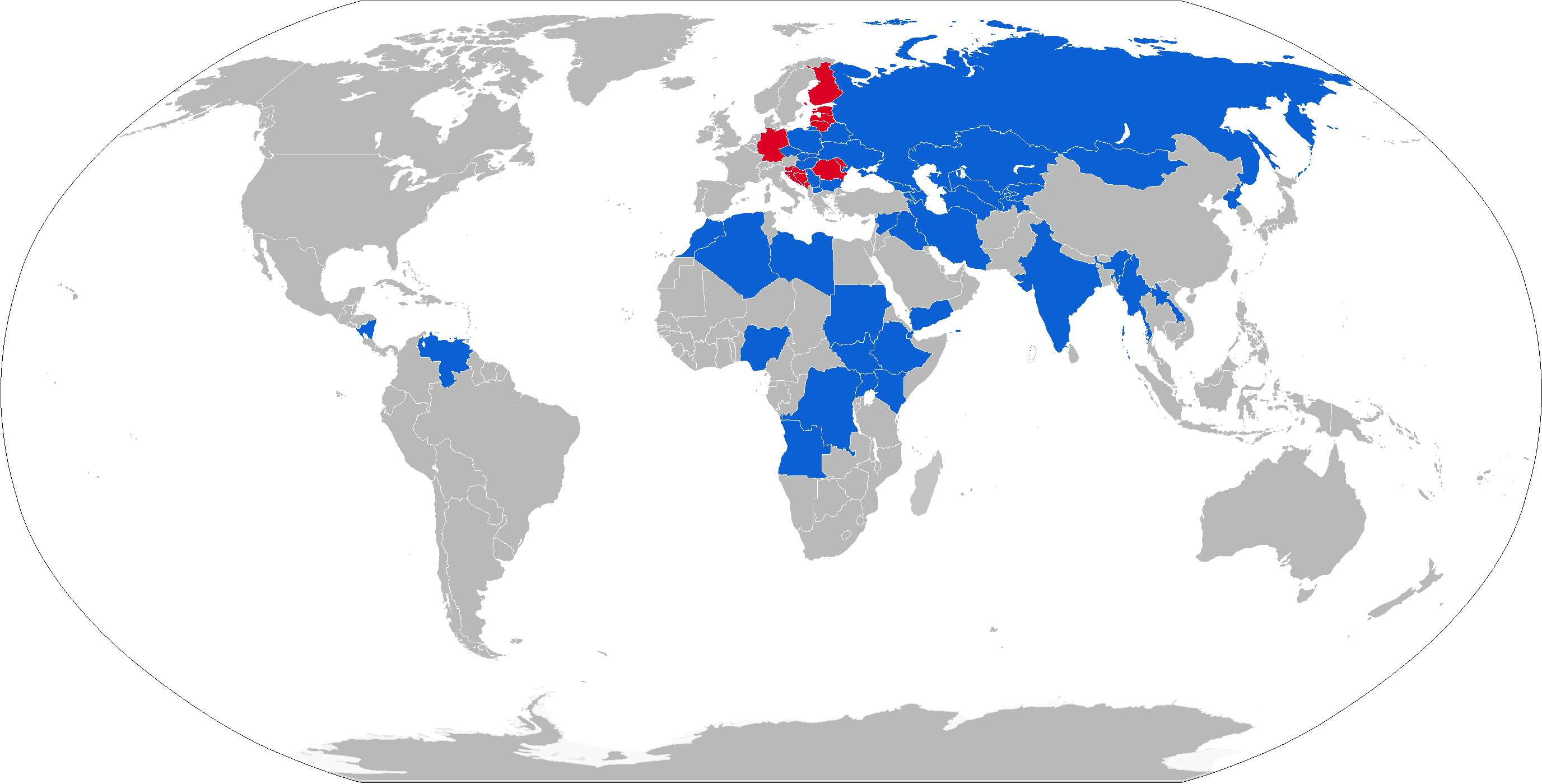 Map of T-72 operators in blue with former operators in red.